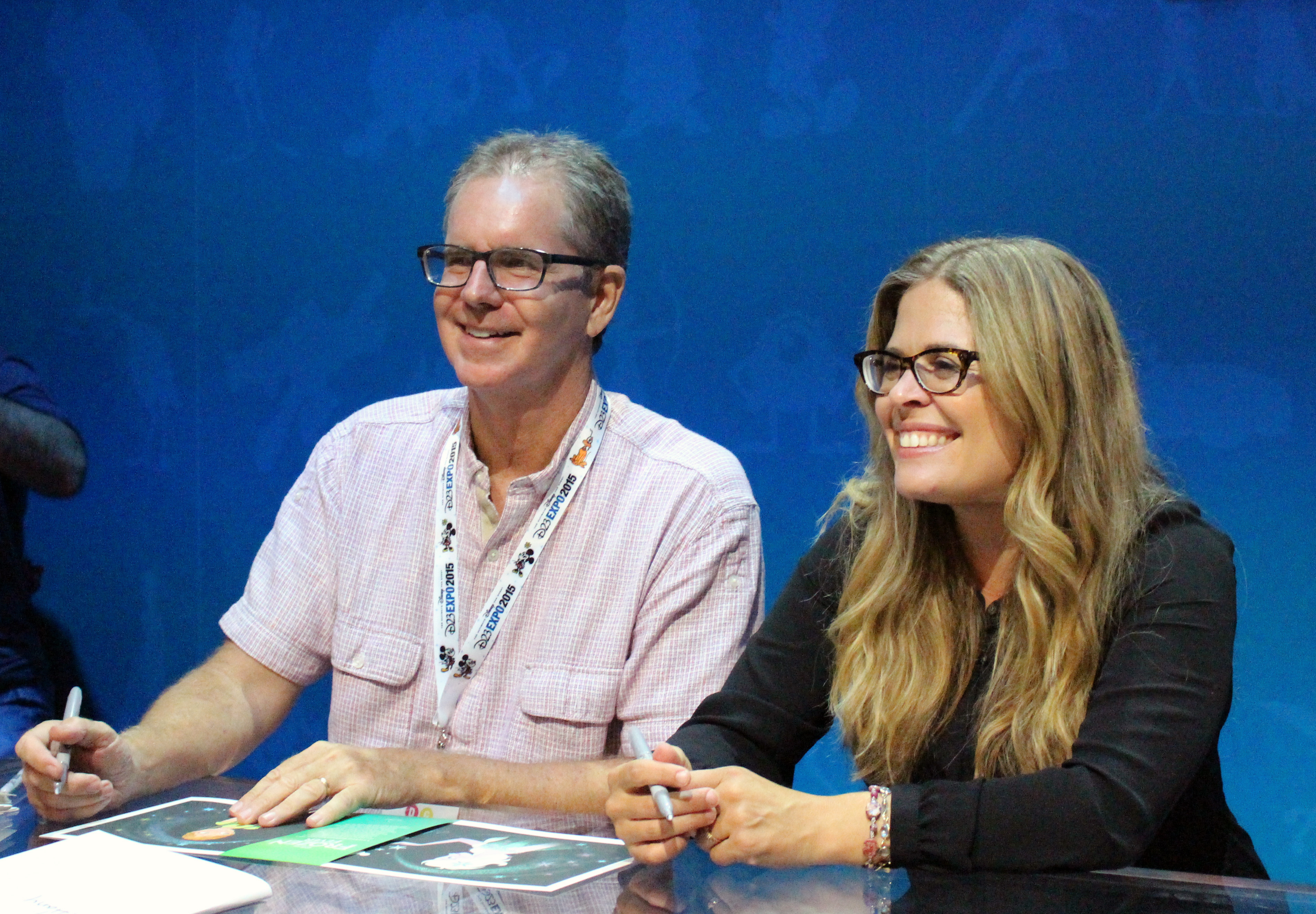 The directors of Frozen Fever, Chris Buck and Jennifer Lee, signing lithographs of the film's visual development art at D23 Expo in Anaheim, California on August 16, 2015.